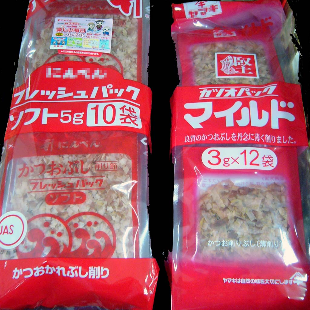 katsuobushi-kezuribushi, katsuo-kezuribushi, Katsuobushi shavings from a package